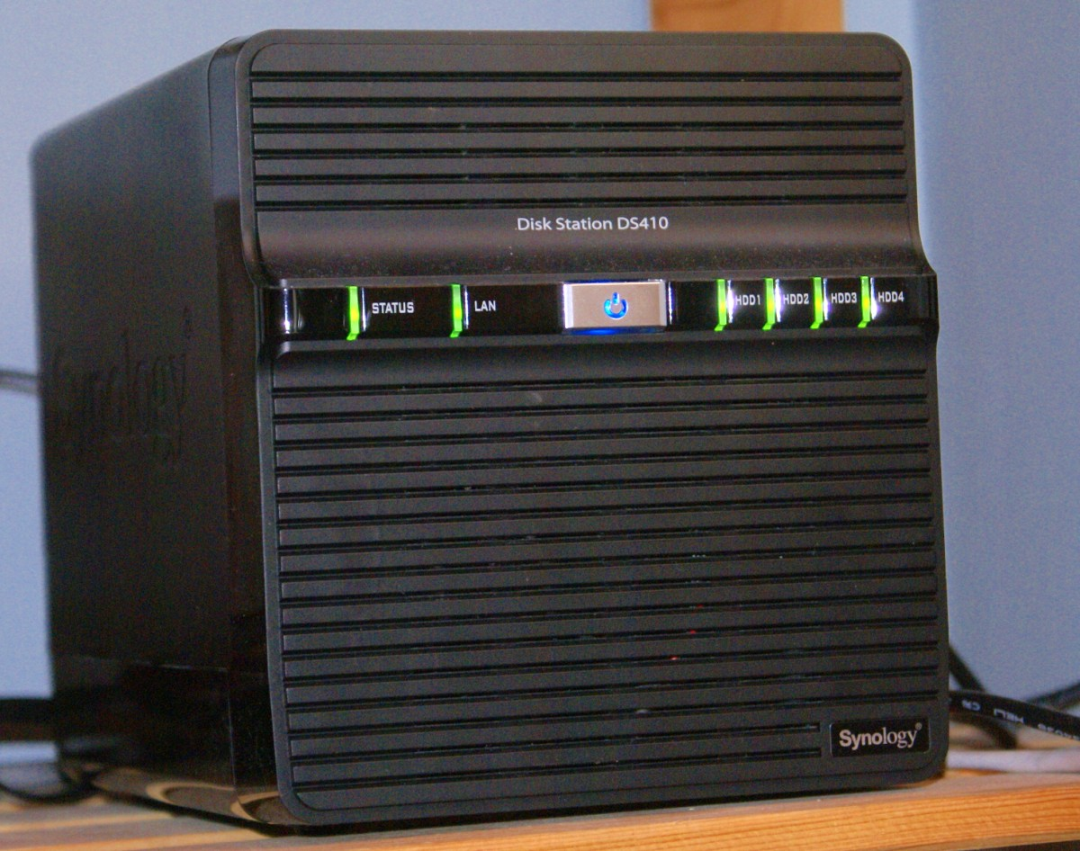 Synology DS410